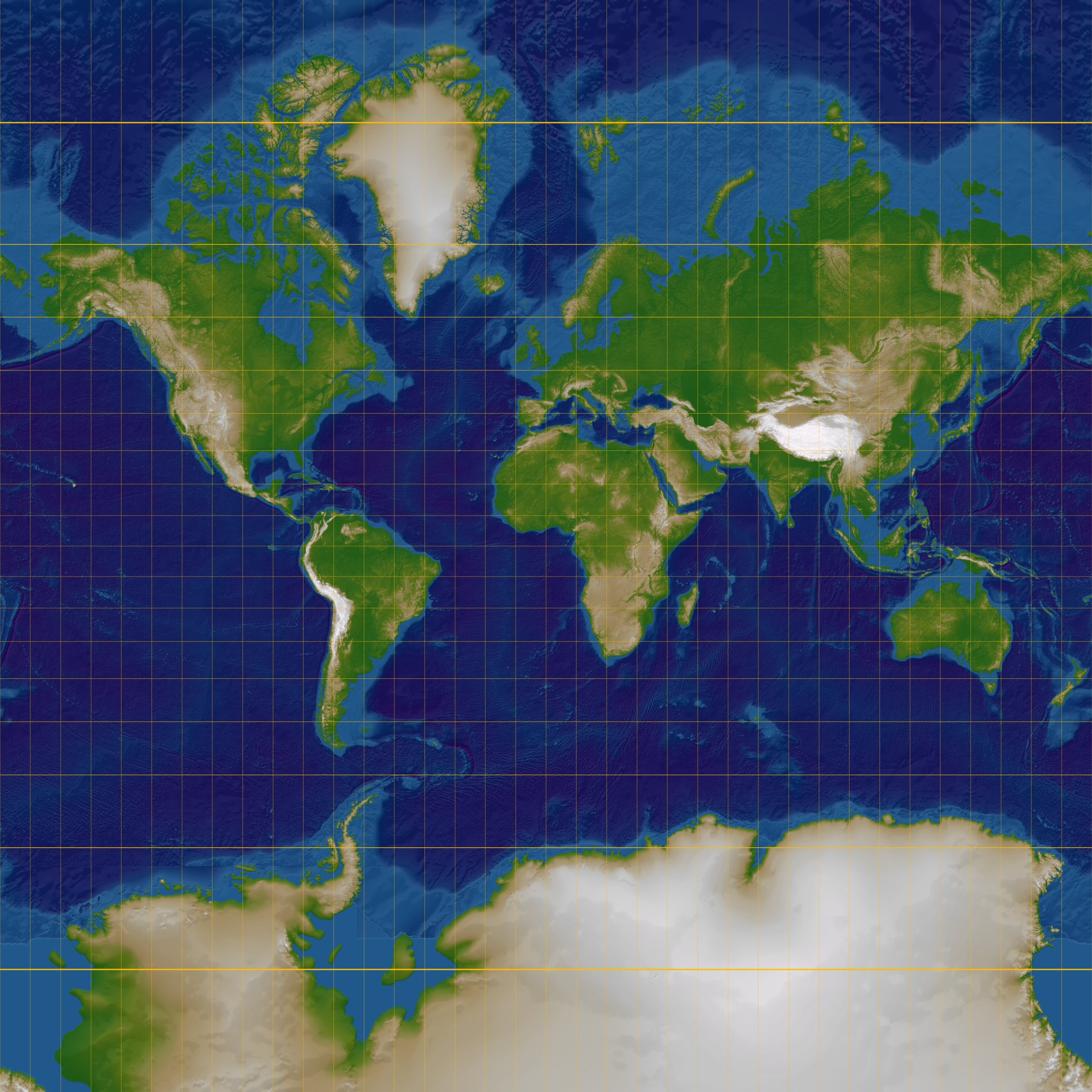 Normal Mercator projection. Map center is at 0° E, 0° N. Maximum latitude is 85.051129° N/S to make a square map.